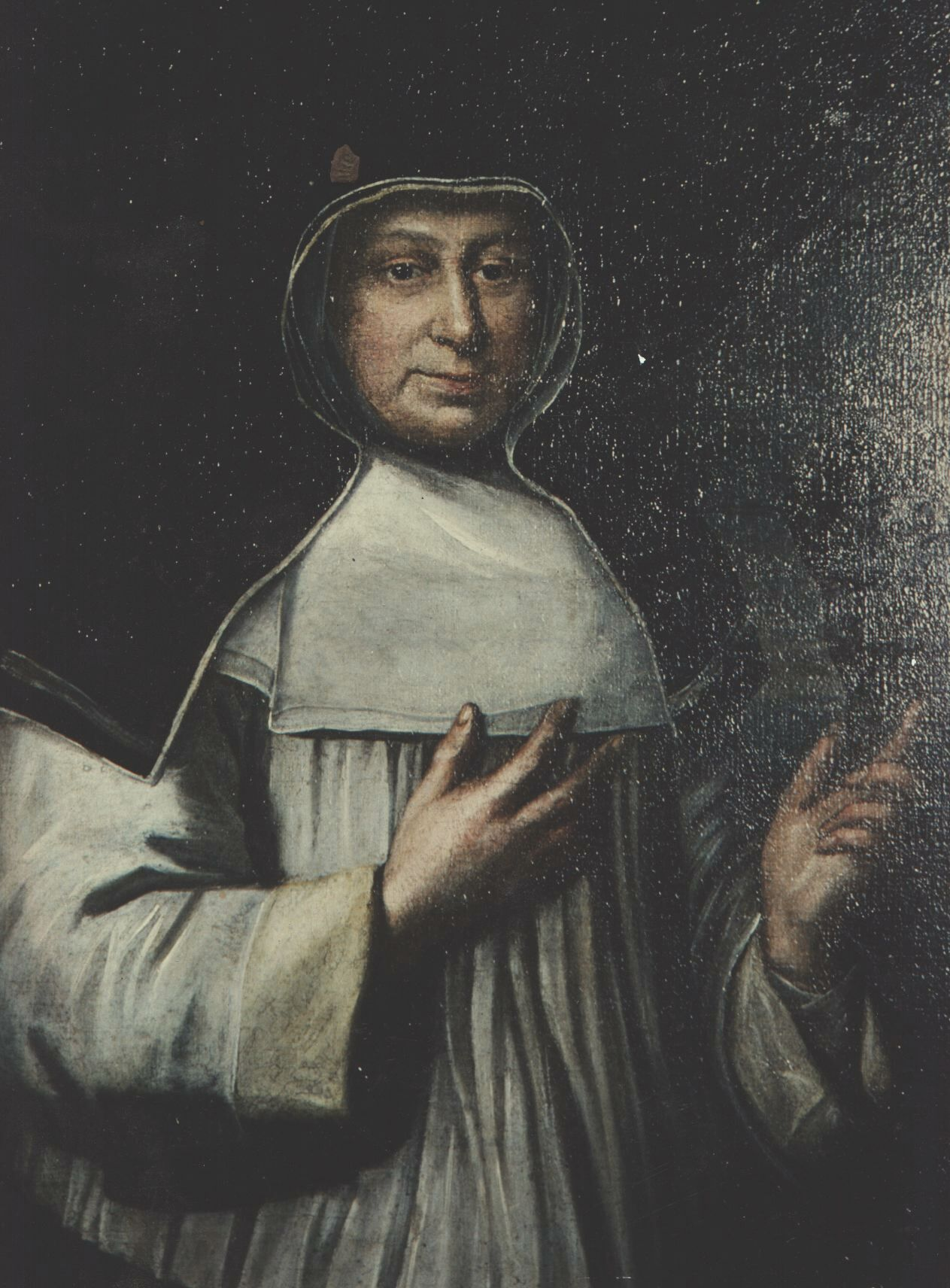 Painting of Elisabeth Hurckmans (Deurne, abt 1689 - Antwerp 1776), nun at Soeterbeek Abbey, head of the Nazarath Monastery in Waalwijk